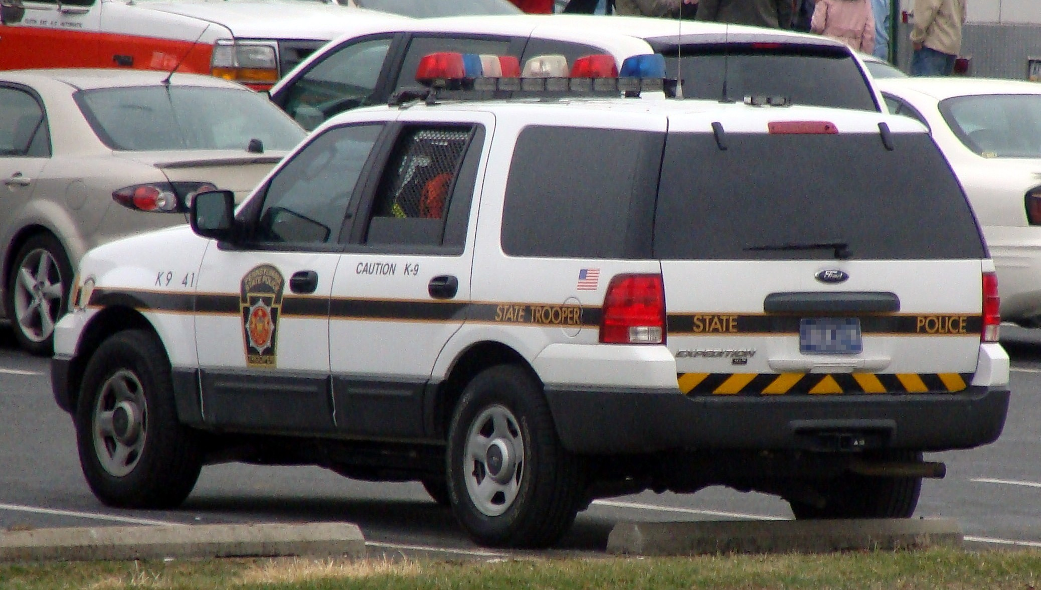 A Ford Expedition used by the Pennsylvania State Police in Millersville, Pennsylvania.